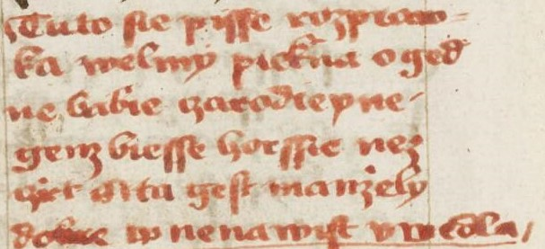 Beginning of the first of the so called Olomouc stories (Olomoucké povídky) from the 2nd half of 15 century